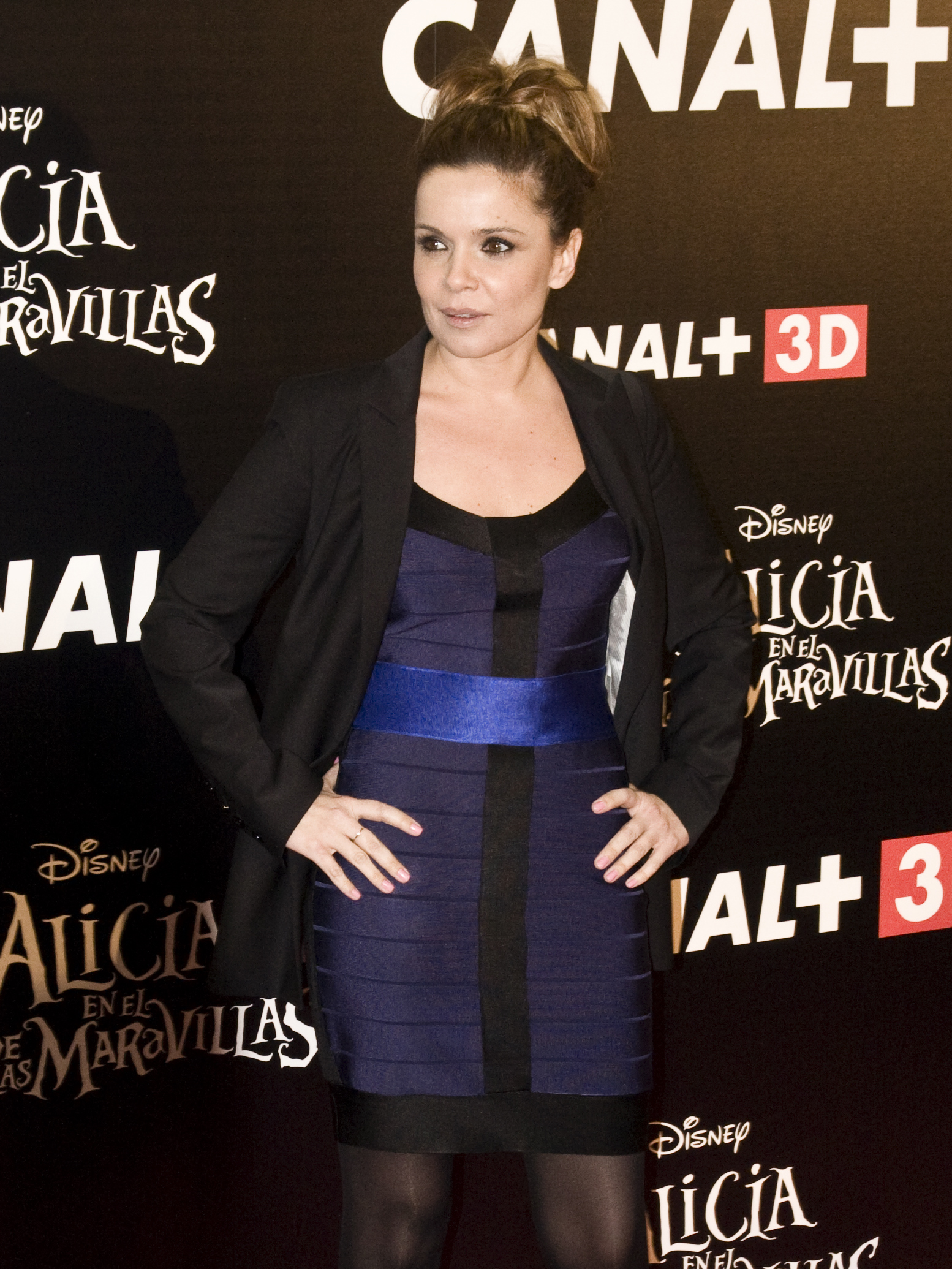 Carme Chaparro Spanish TV presenter at the photocall of Alice in Wonderland in 2010.